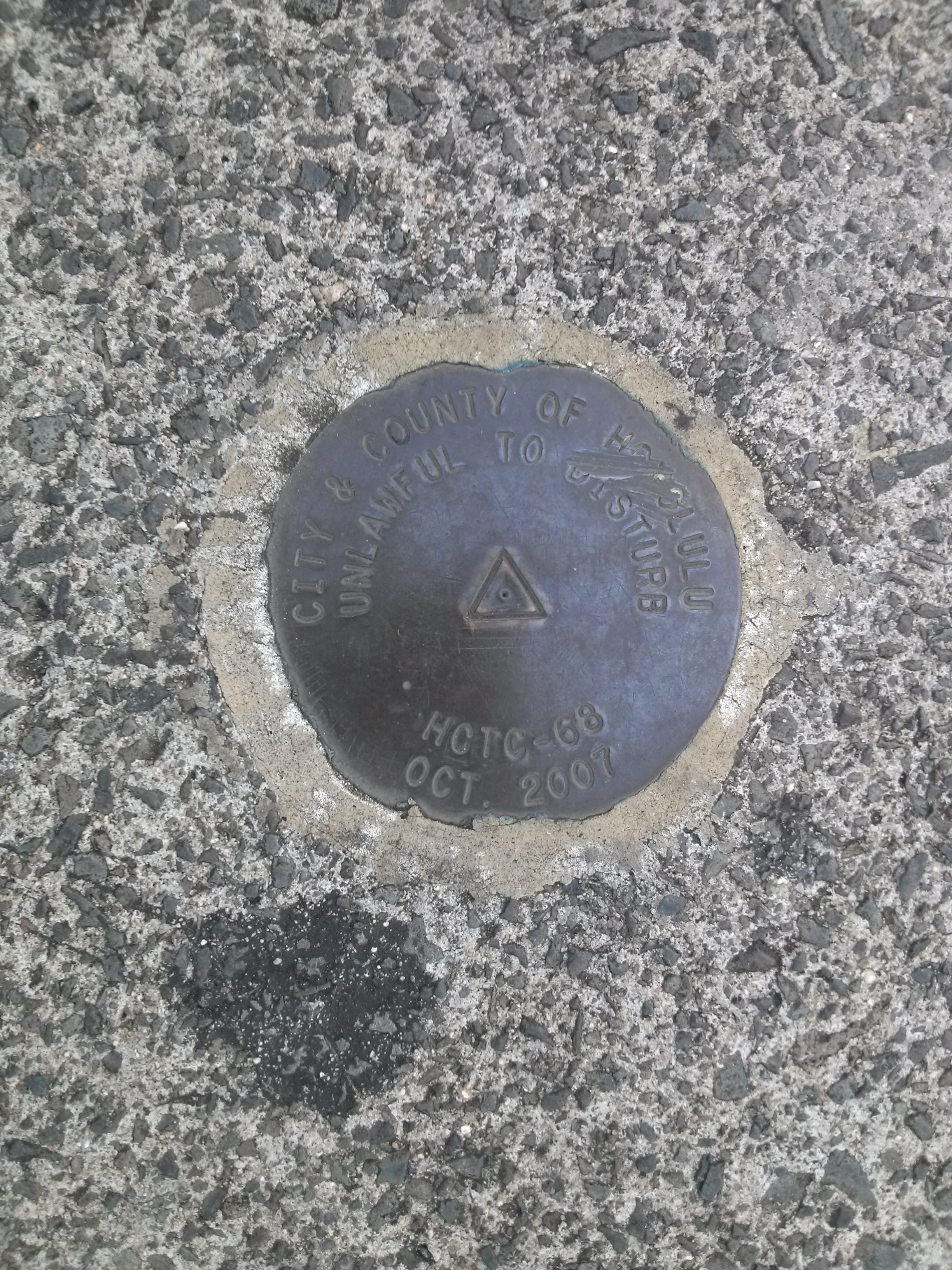 Marker for the Honolulu High-Capacity Transit Corridor set at the intersection of Kapiolani Blvd and Keeaumoku Street in Honolulu, HI.